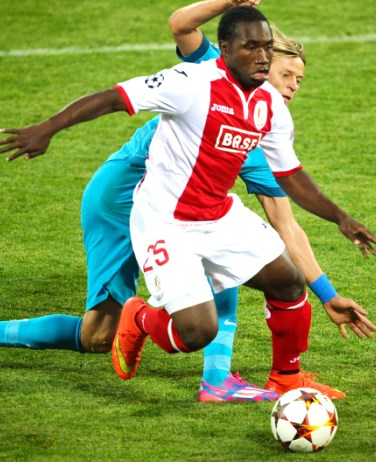 Yannis Mbombo